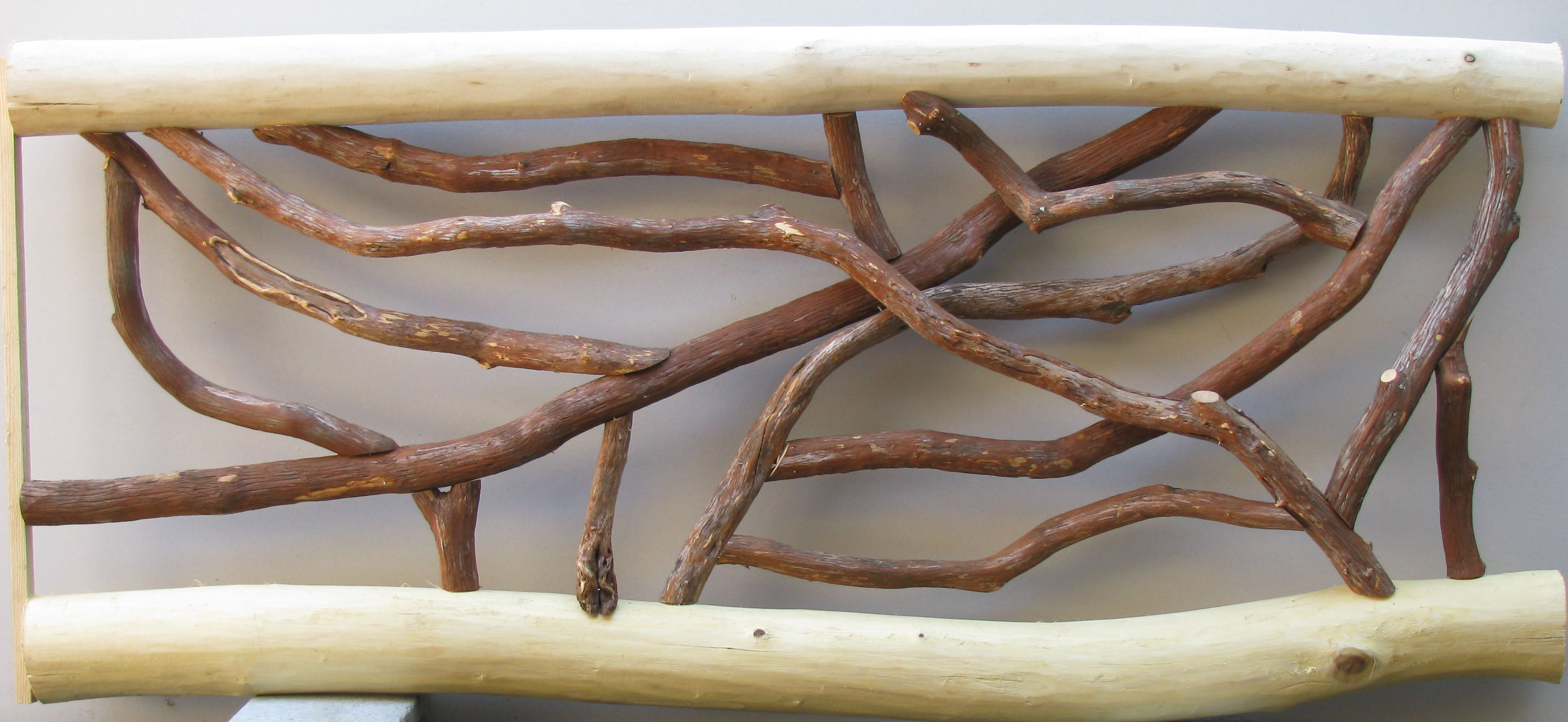 Railing with black locust log top and bottom and mountain laurel branches